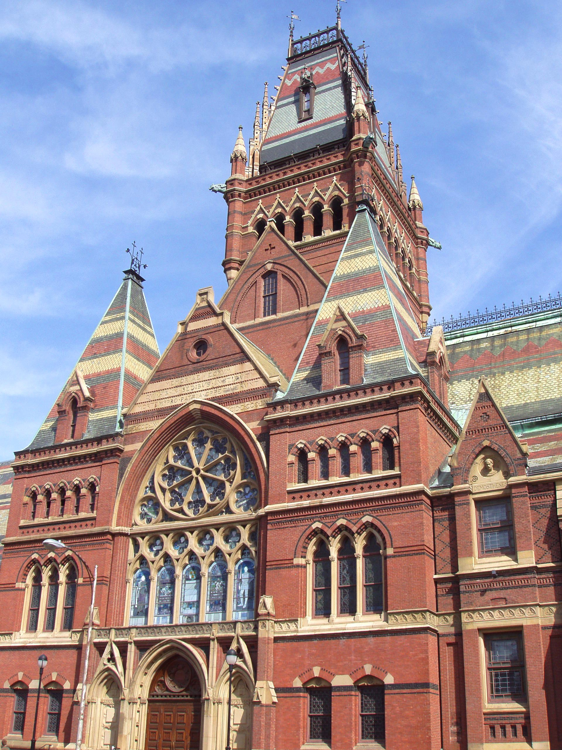 Memorial Hall, Harvard University, Cambridge, Massachusetts, USA. Details of exterior facade. Architects Henry Van Brunt and William Robert Ware.